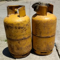 LPG disttribution Colombia